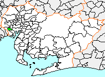 Modified by me from Wikipedia's file